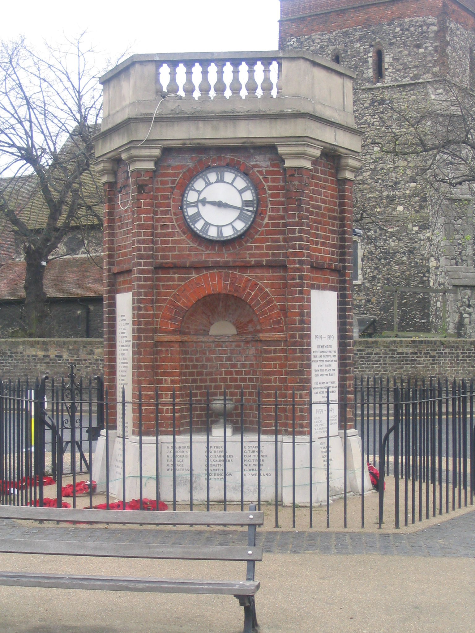 Photograph uploaded by Author (Max Naylor). Rainham Clocktower, 14th April 2005.